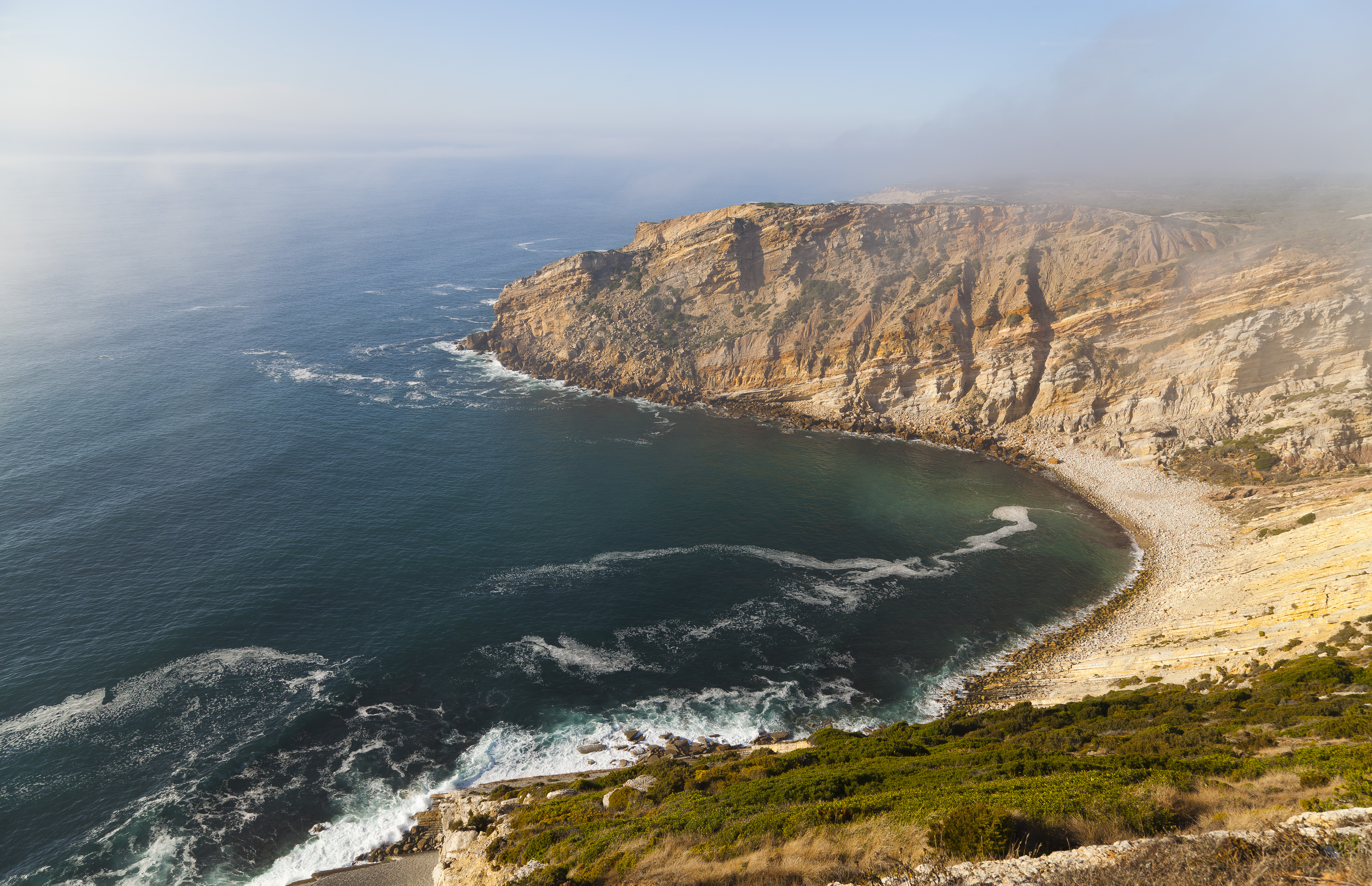 Cape Espichel, Portugal